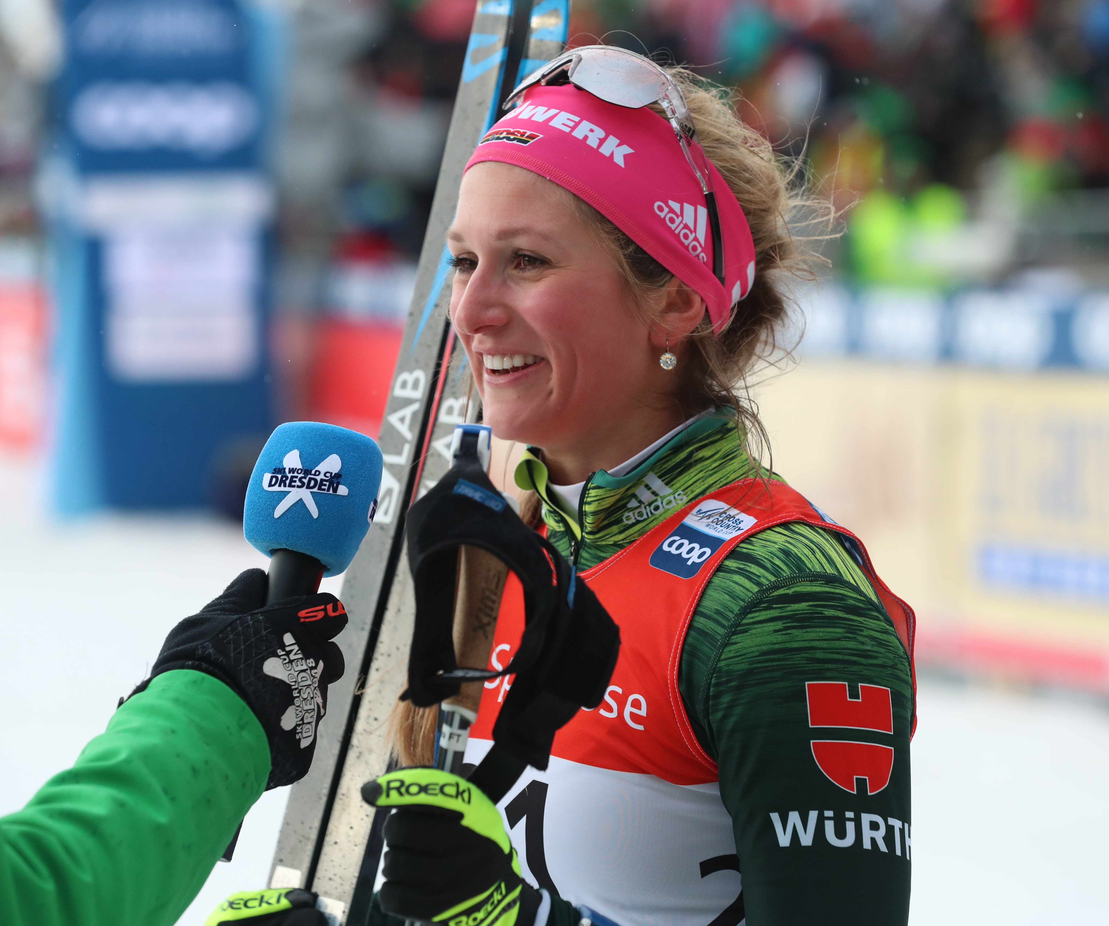 Women's Quarterfinal, Heat 5, at the FIS Cross-Country World Cup Dresden 2019 (1.6 km Free Sprint)